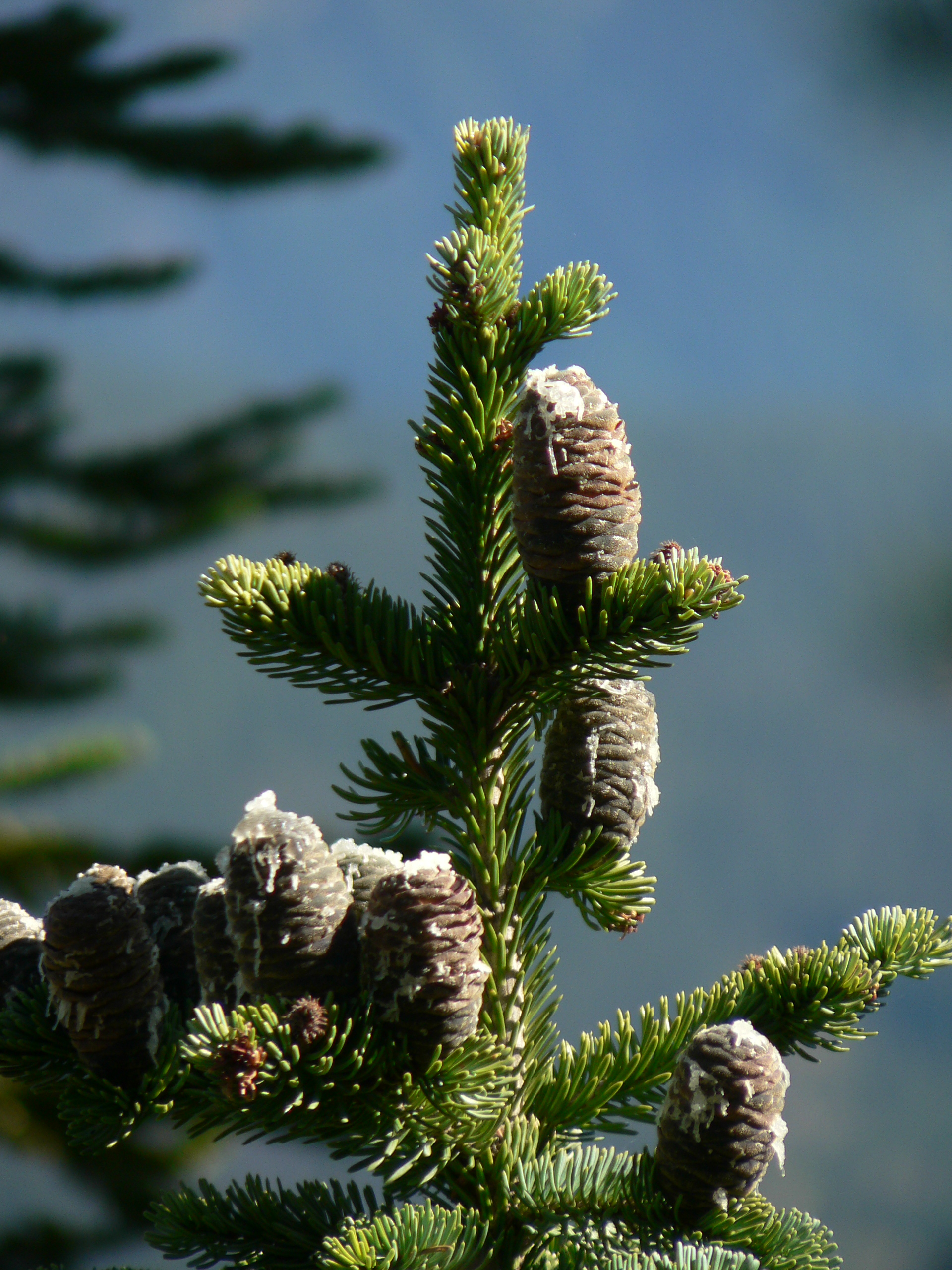 Subalpine Fir